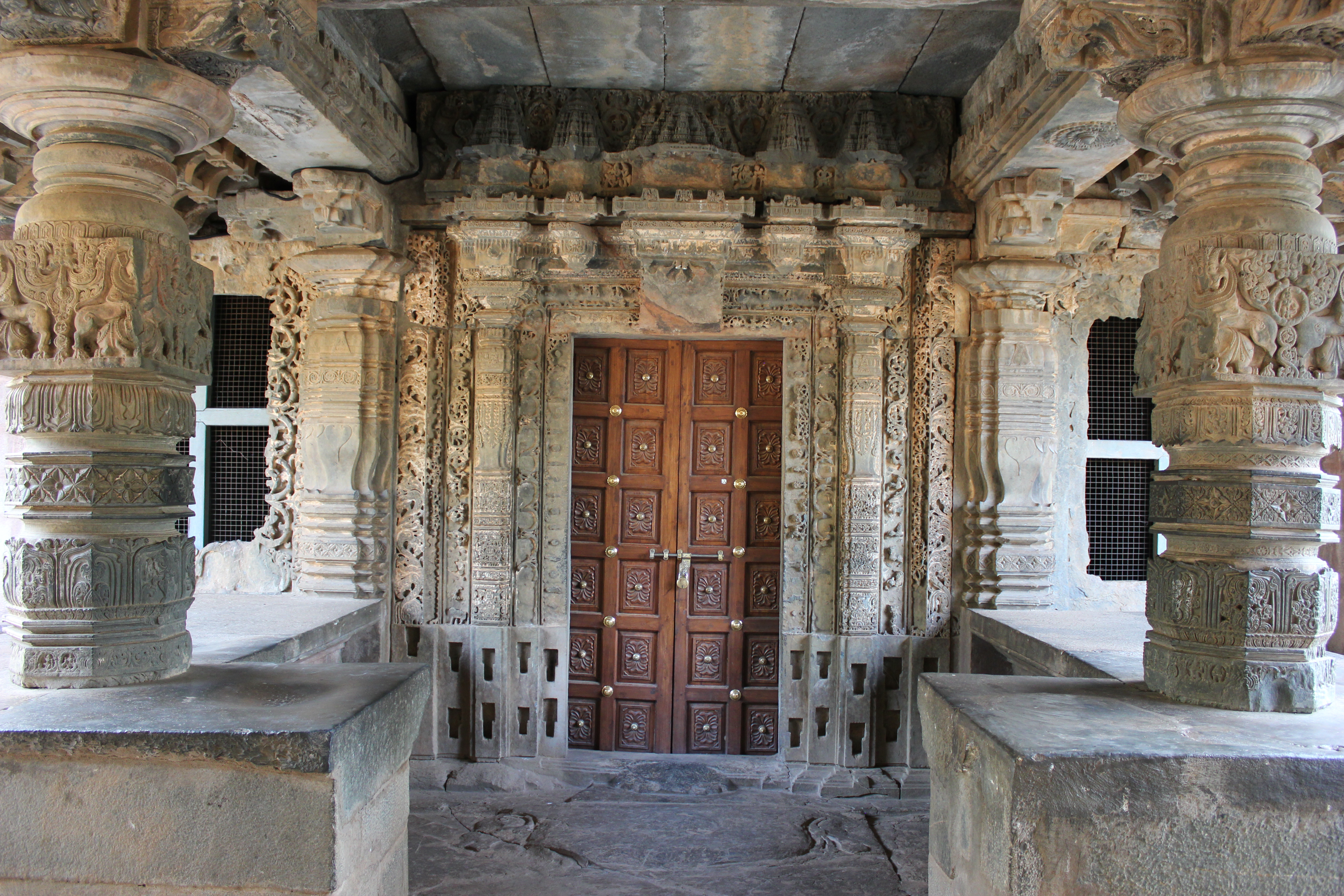 The Nagareshvara temple (also called Aravattu Kambada Gudi literally meaning "60 pillared temple") was built by the Kalyani (western) Chalukyas in the late 11th century - early 12th century AD during the rule of King Vikramaditya VI. Bankapura is a town located in the Haveri district of the Karnataka state, India.